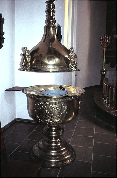 Vor Frue Church in Aalborg Kommune, Denmark. Arch.Johannes Emil Gnudtzmann. Baptismal font from 1619.